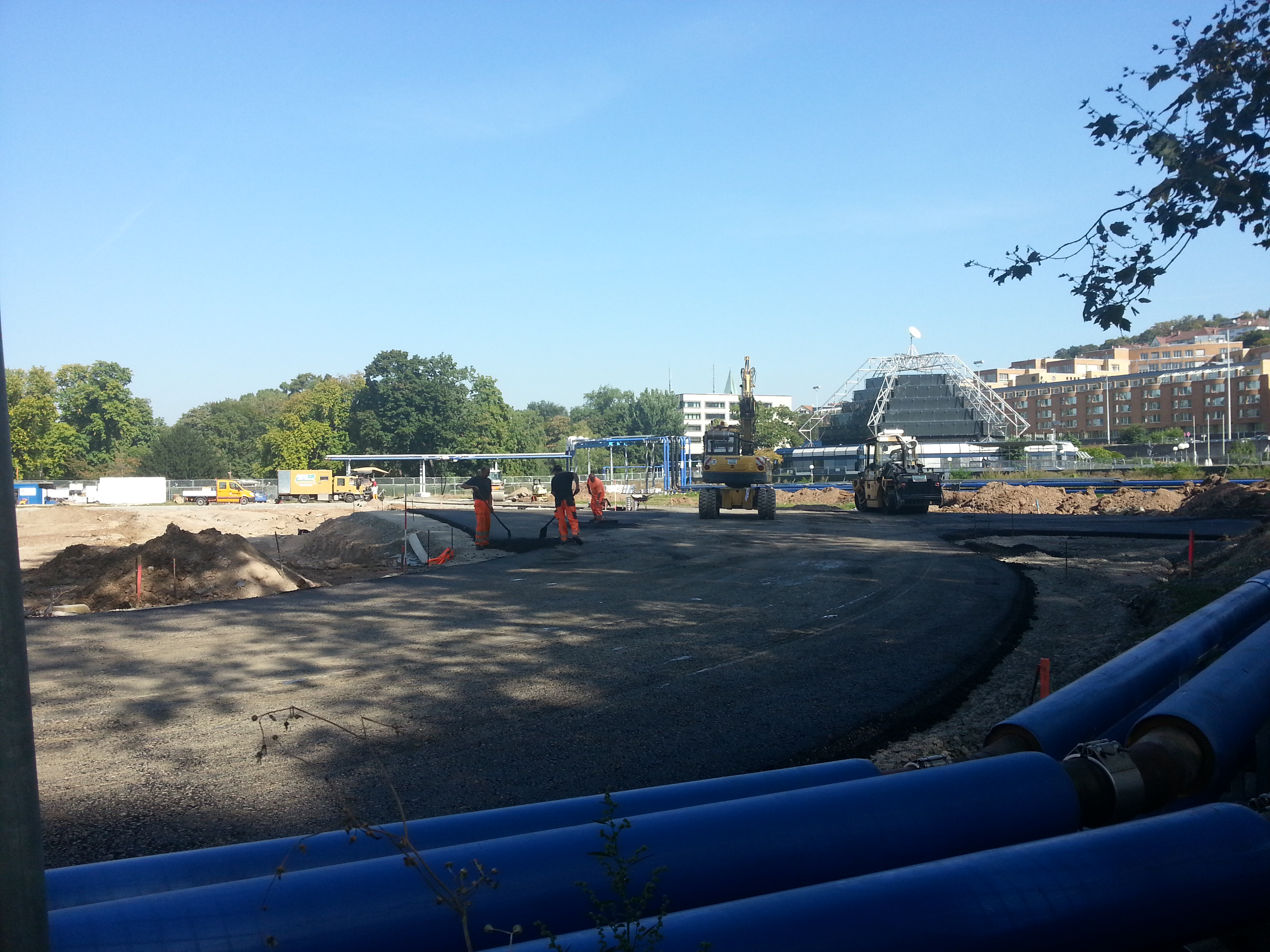 Construction roads are being built at downtown Stuttgart for the new Stuttgart main railway station.